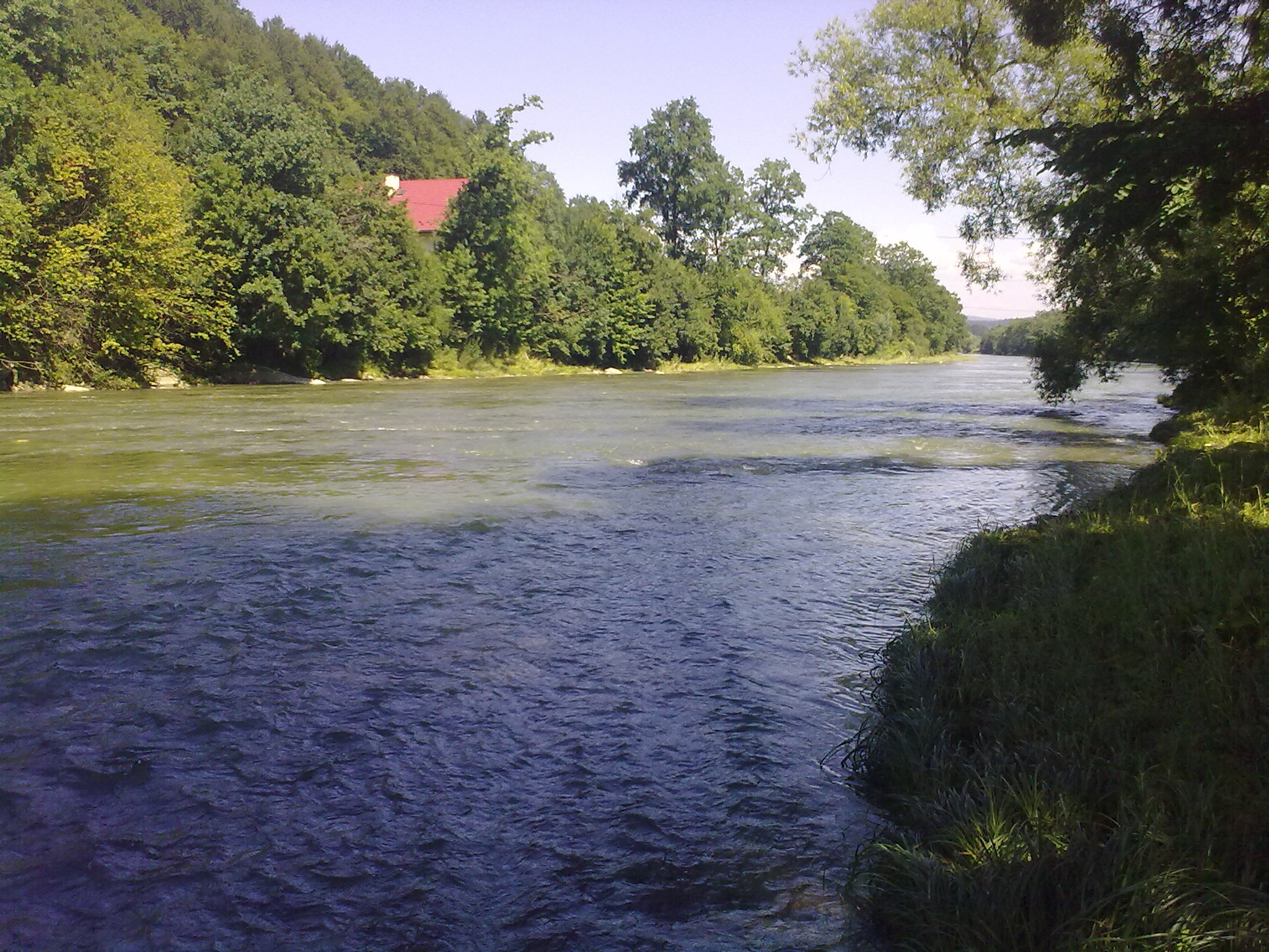 Osława river in Czaszyn